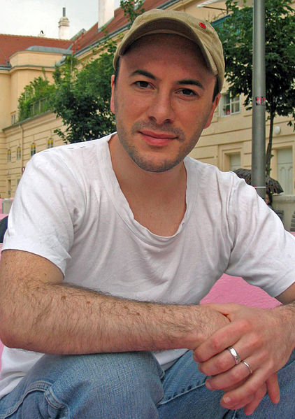 Raoul Biltgen, author, actor from Luxembourg